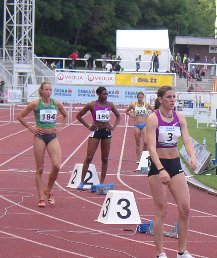 Athletes before start of women's 400 m hurdles race at 17th edition of the Josef Odložil Memorial (EAA Premium Meeting, Na Julisce Stadium, Prague, Czech Republic, 14 June 2010). The race was won by Hejnová in 54.68 s. # (120) Eva Jeníková # (189) Perri Shakes-Drayton # (184) Zuzana Bergrová # (3) Zuzana Hejnová